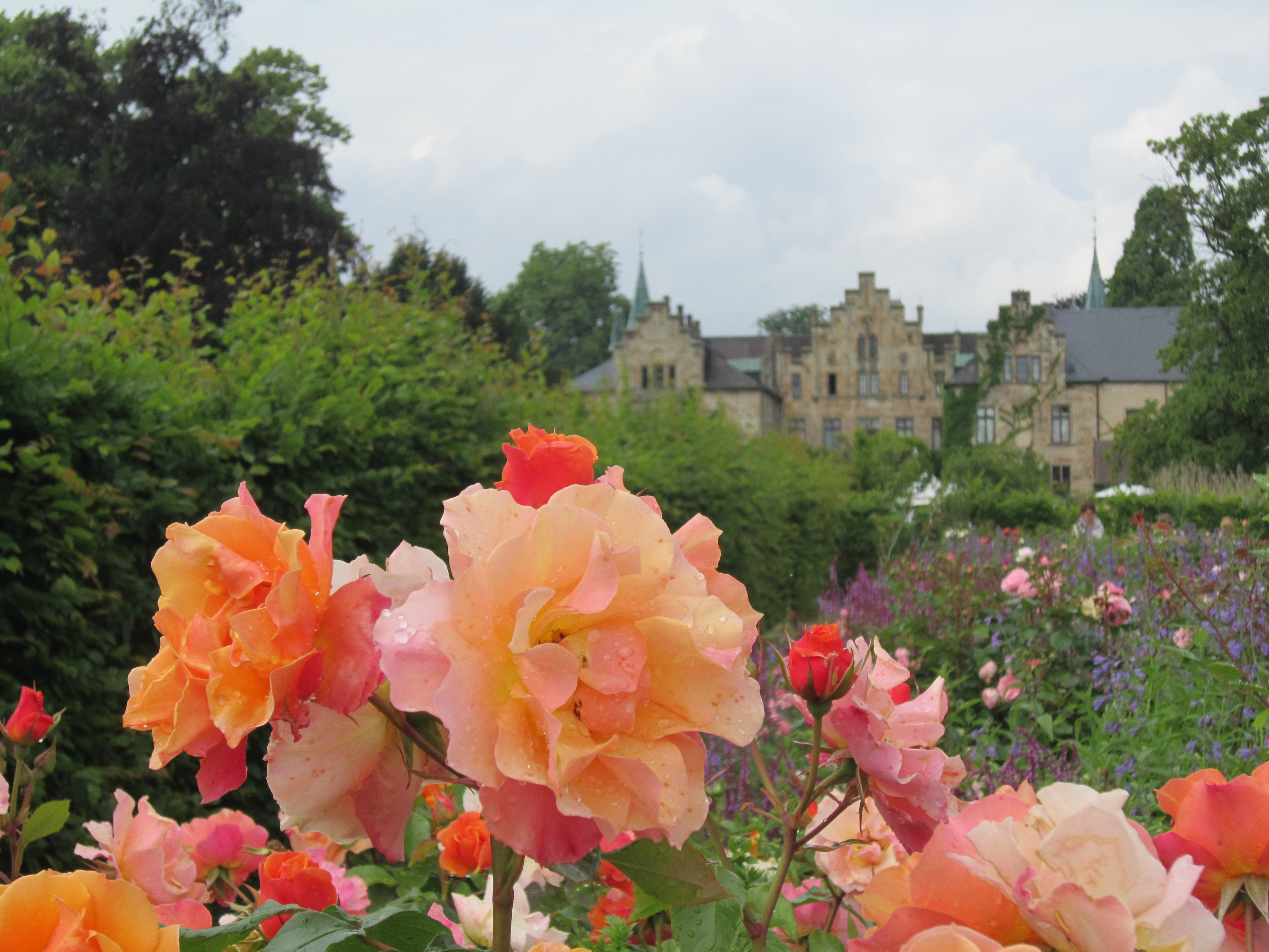 Rose garden in the park of Ippenburg Castle during the summer festival in 2016